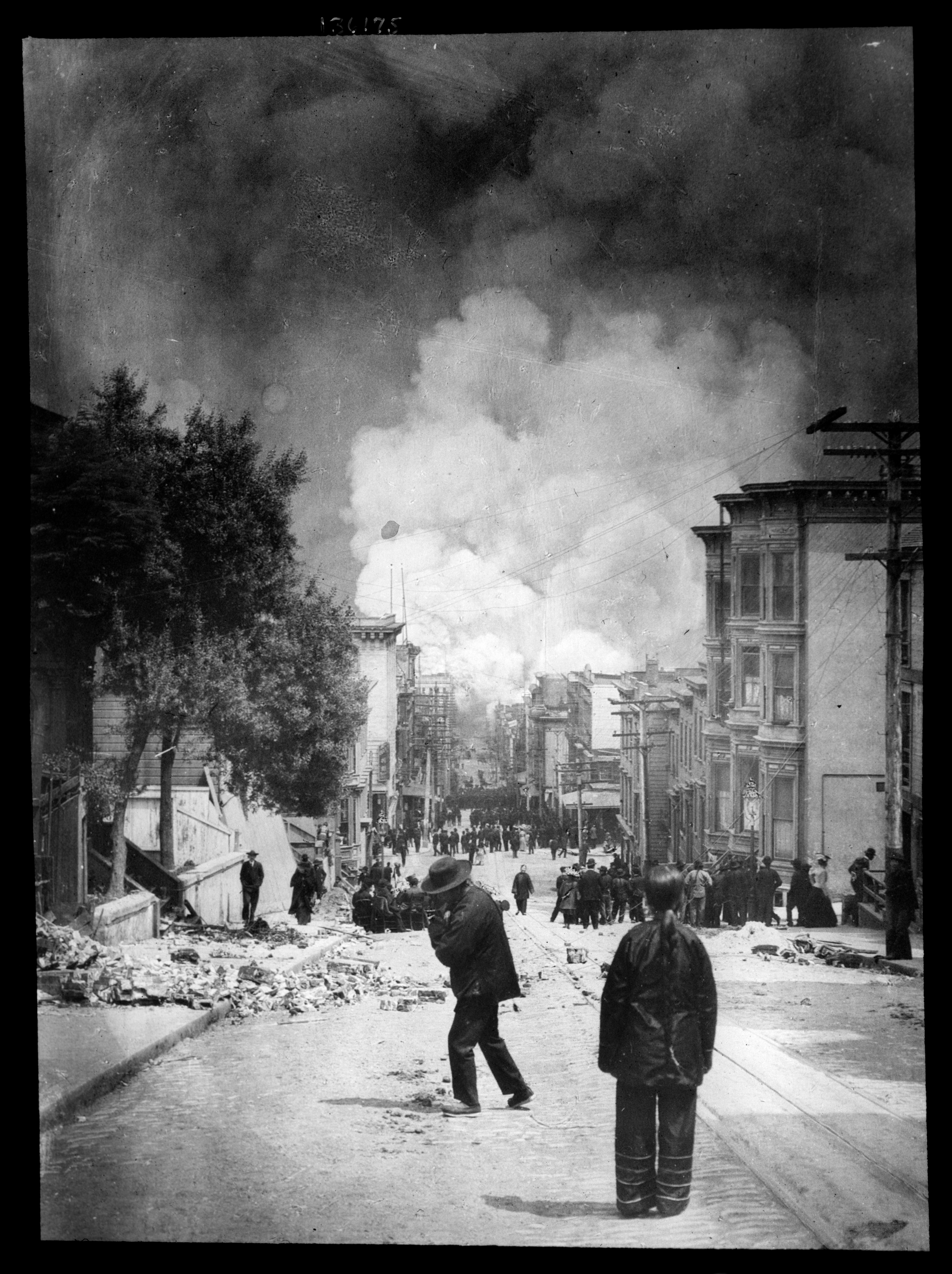 San Francisco, April 18, 1906. 1 slide : lantern ; 4 x 5 in. or smaller.